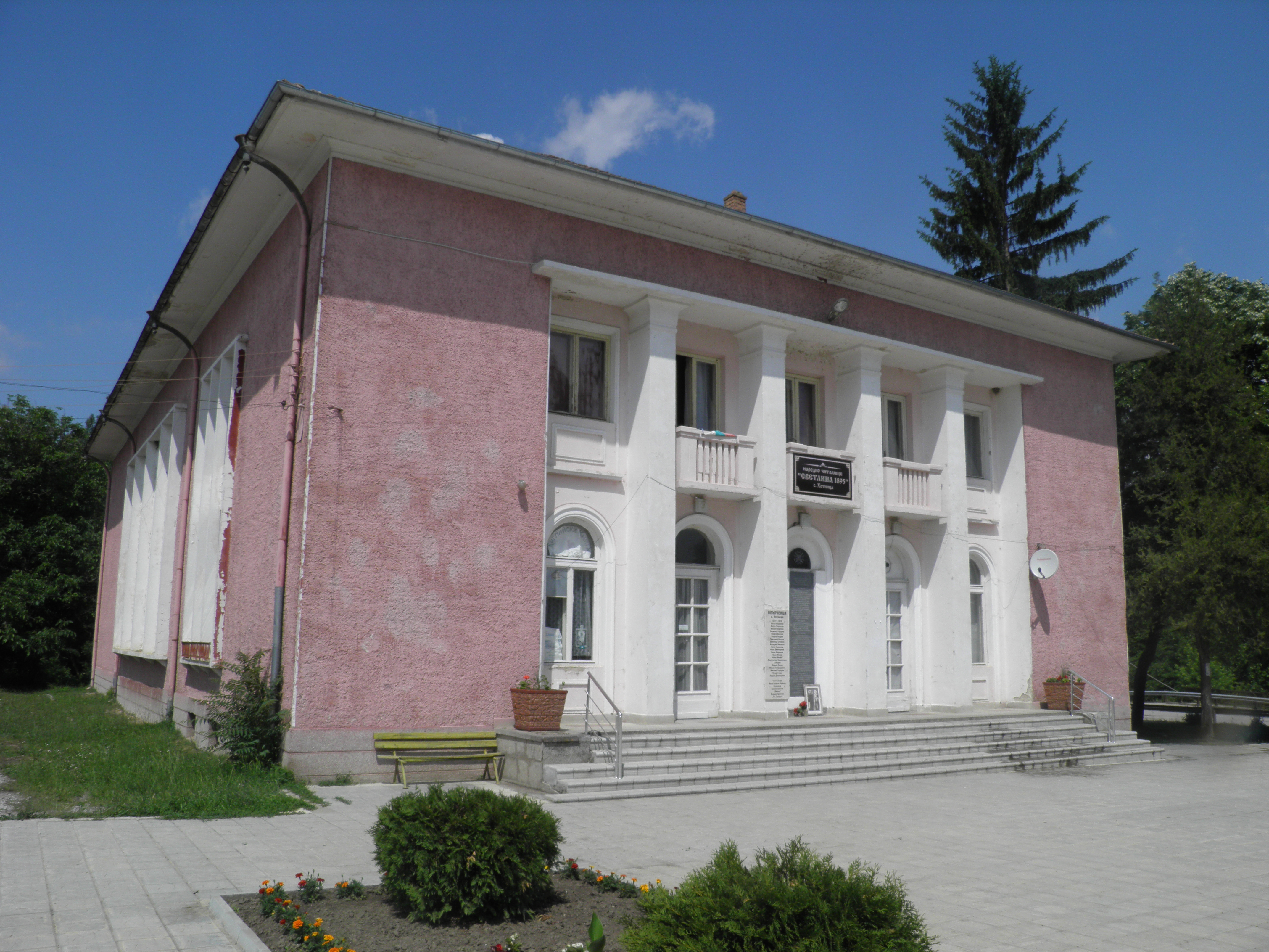 Culture centrer Hotnitsa,Bulgaria